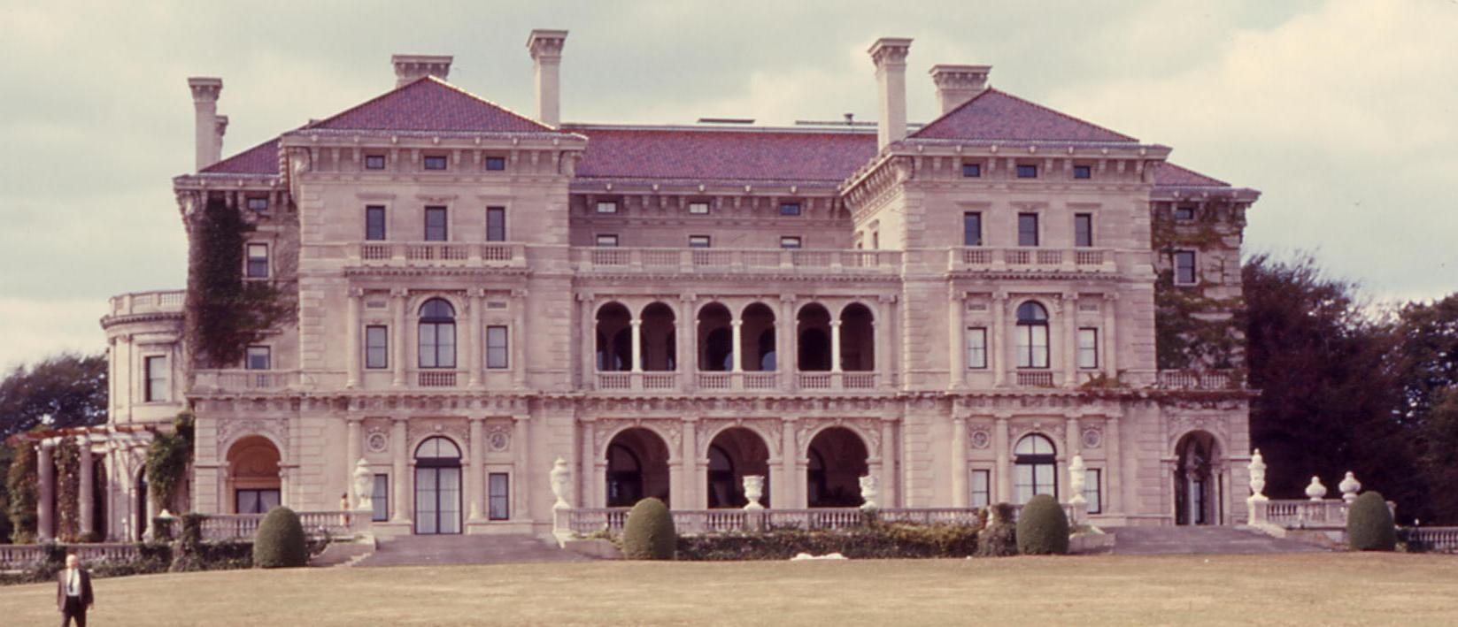 "The Breakers", a Vanderbilt mansion in Newport, Rhode Island. Rear view, facing the sea.